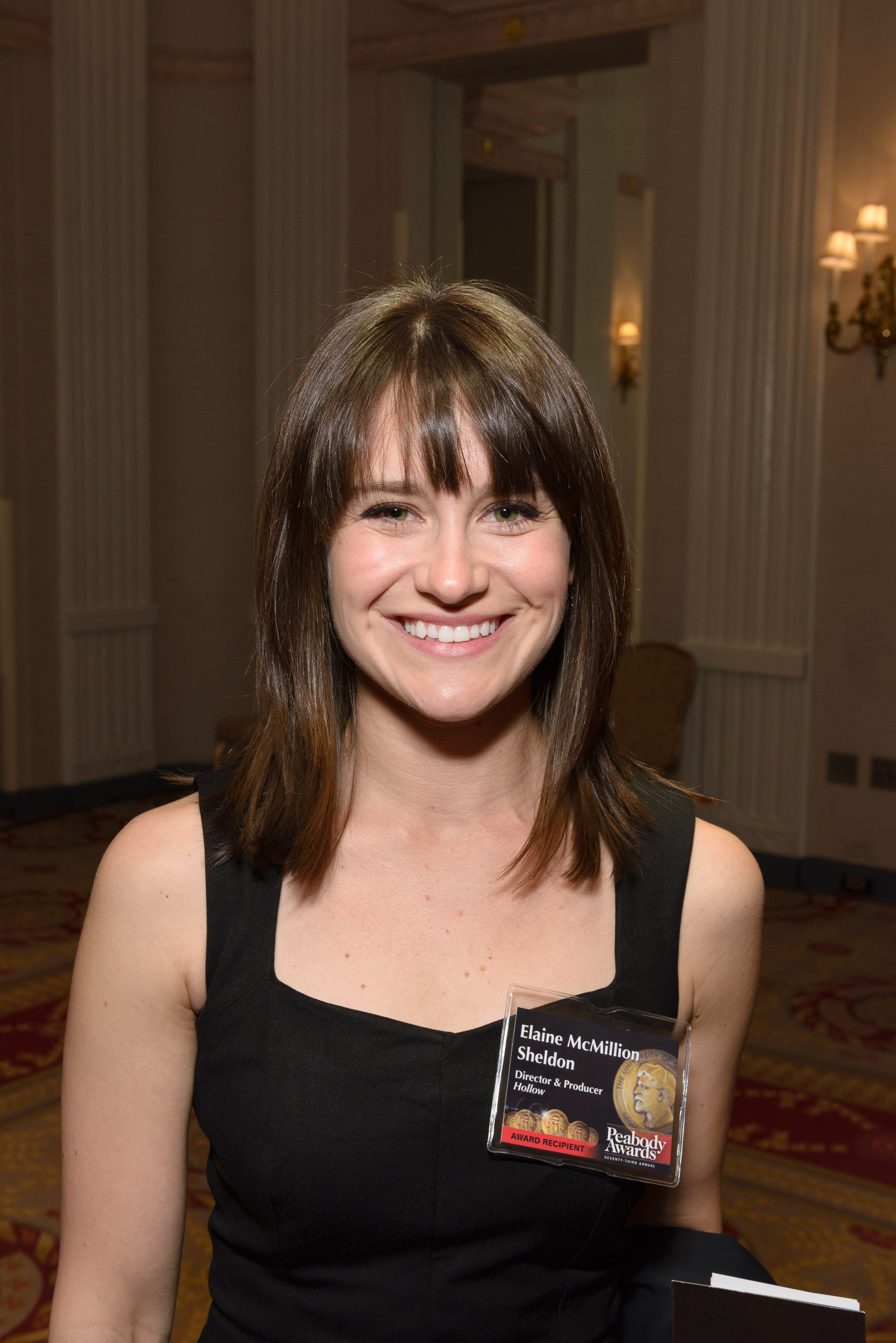 Elaine McMillion Sheldon, director of "Hollow" at the 73rd Annual Peabody Awards Reception.